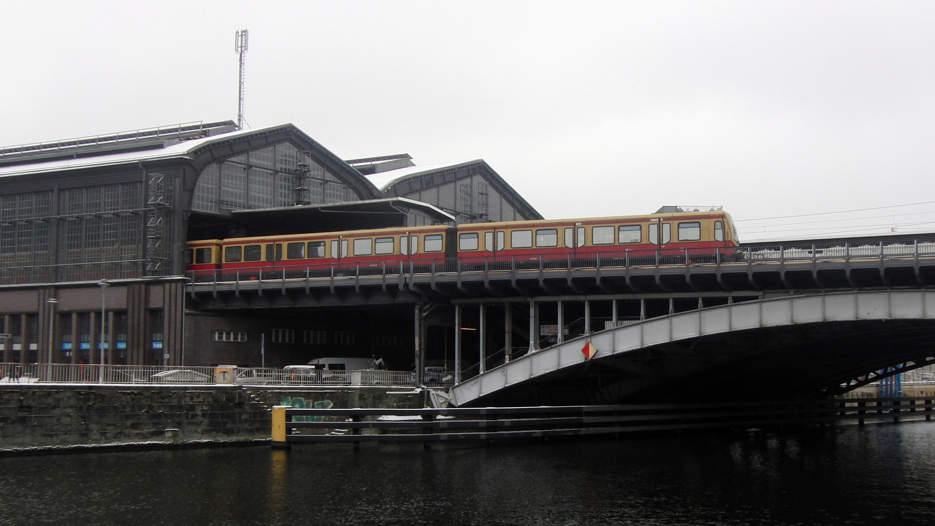 S-Bahn train leave Friedrichstrasse station westbound crossing Reichstagsufer and Spree river.